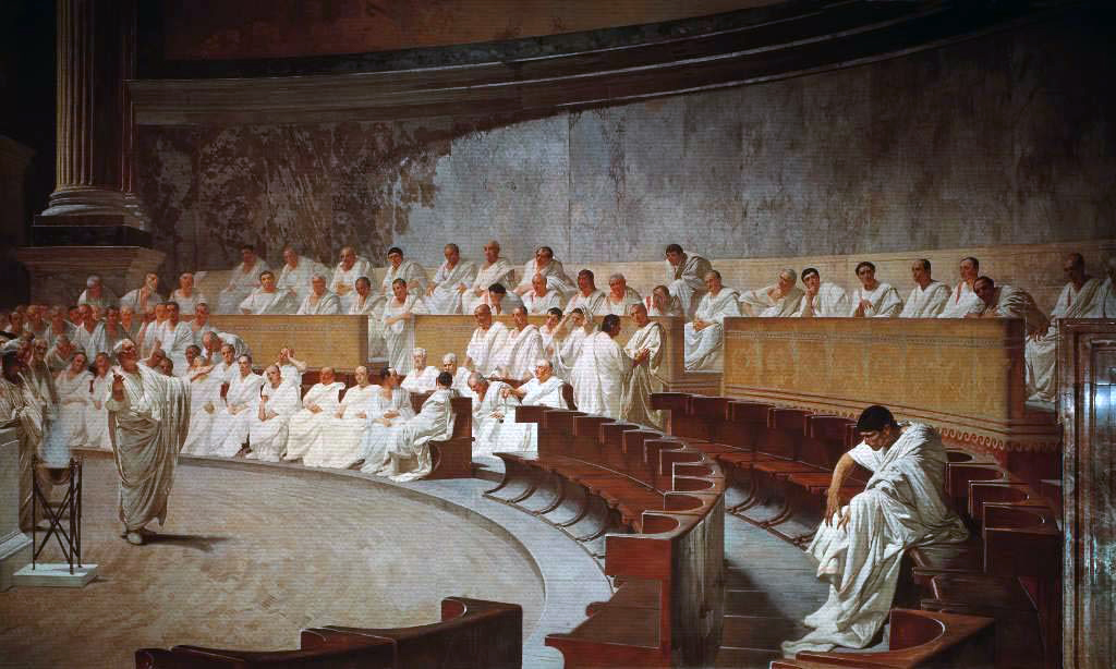 Portion of fresco above door (included in the Width dimension) cropped from image.